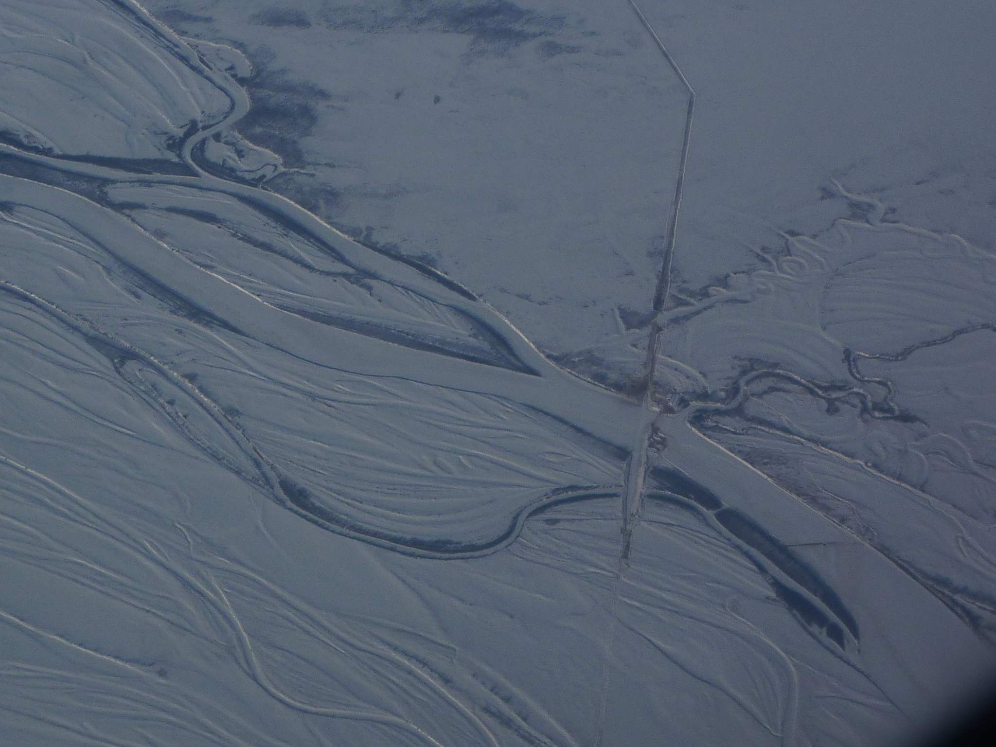 An aerial view of the Amur River some 40 km northeast from Khabarovsk. Looking west (upstream). Photo taken from an AA aircraft on a non-stop ORD-PVG flight